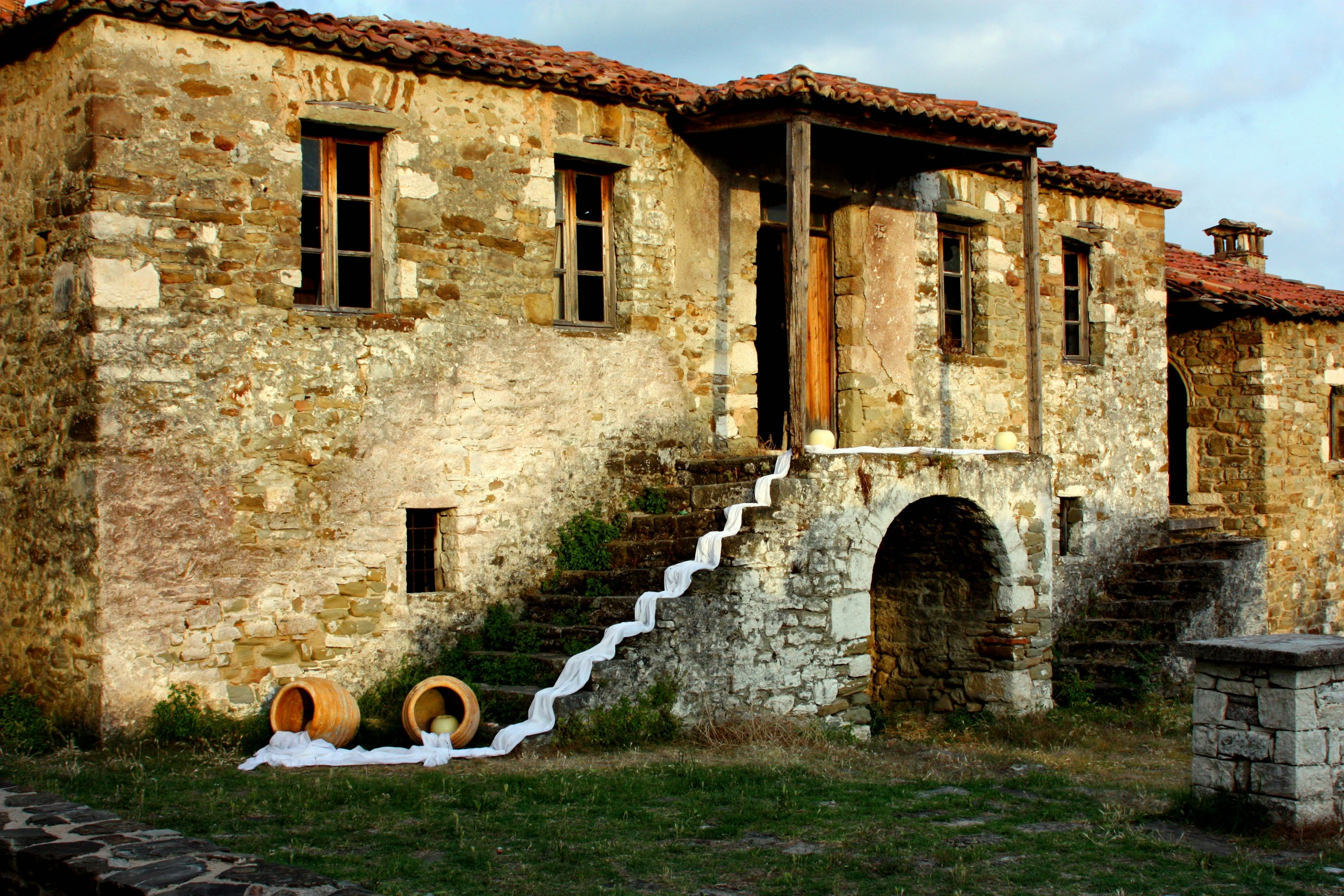 Near Vlacherna Monastery, Arta, Epirus, Greece